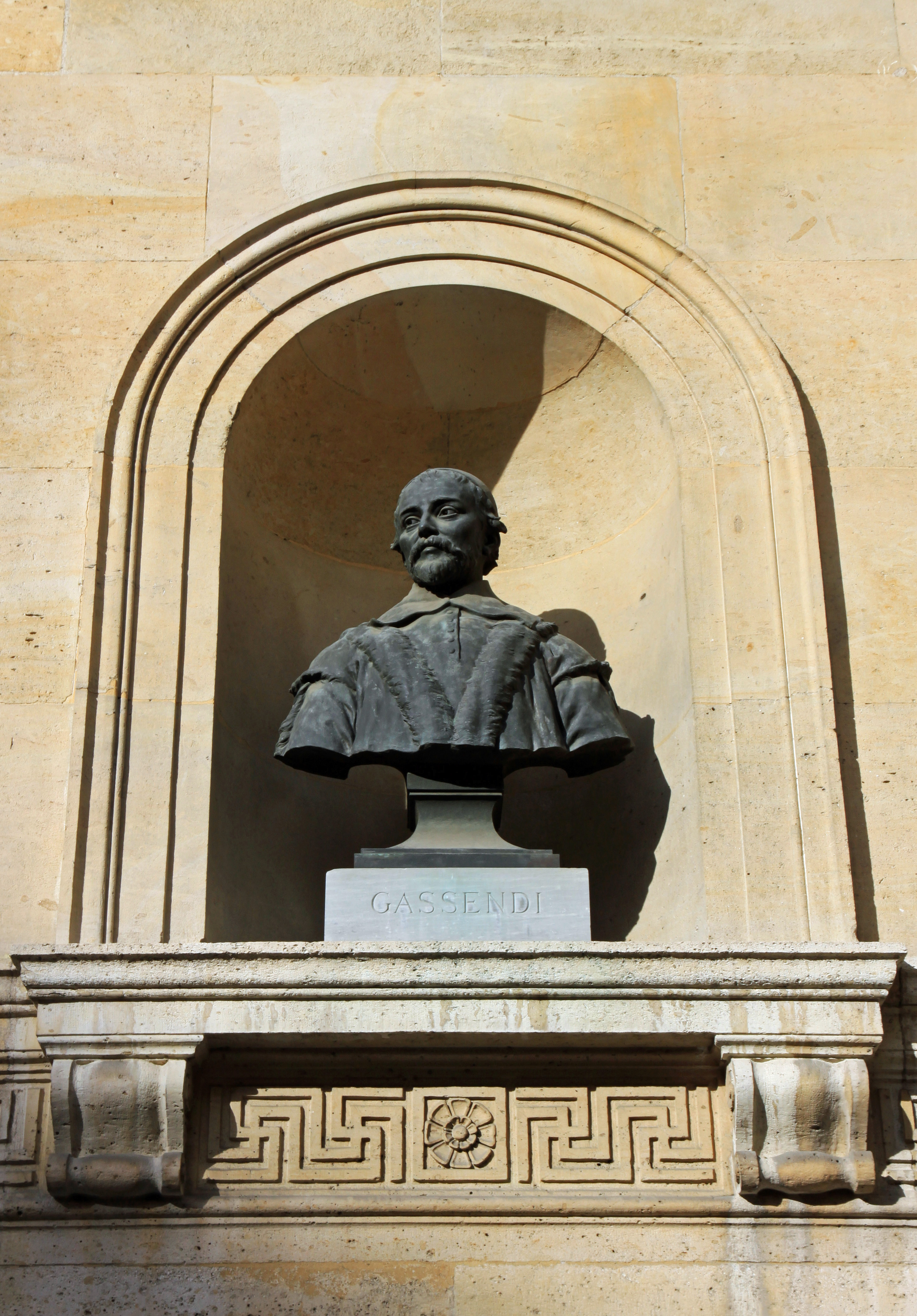 Bust of Pierre Gassendi (1592-1655), courtyard of the Collège de France, Paris.